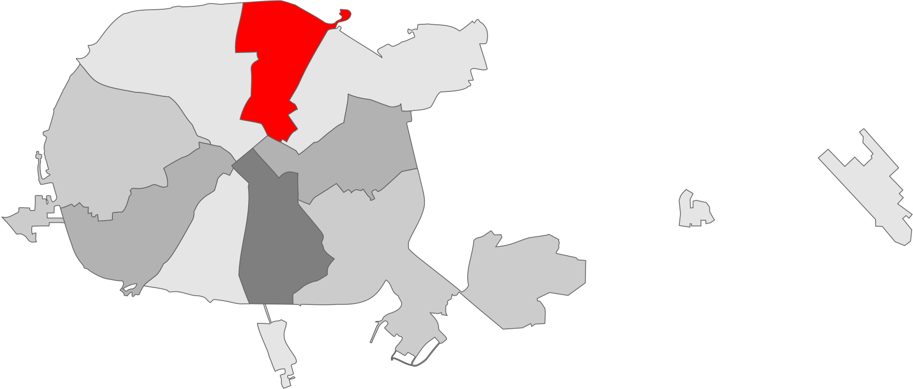 ==Savetsky district within the limits of Minsk